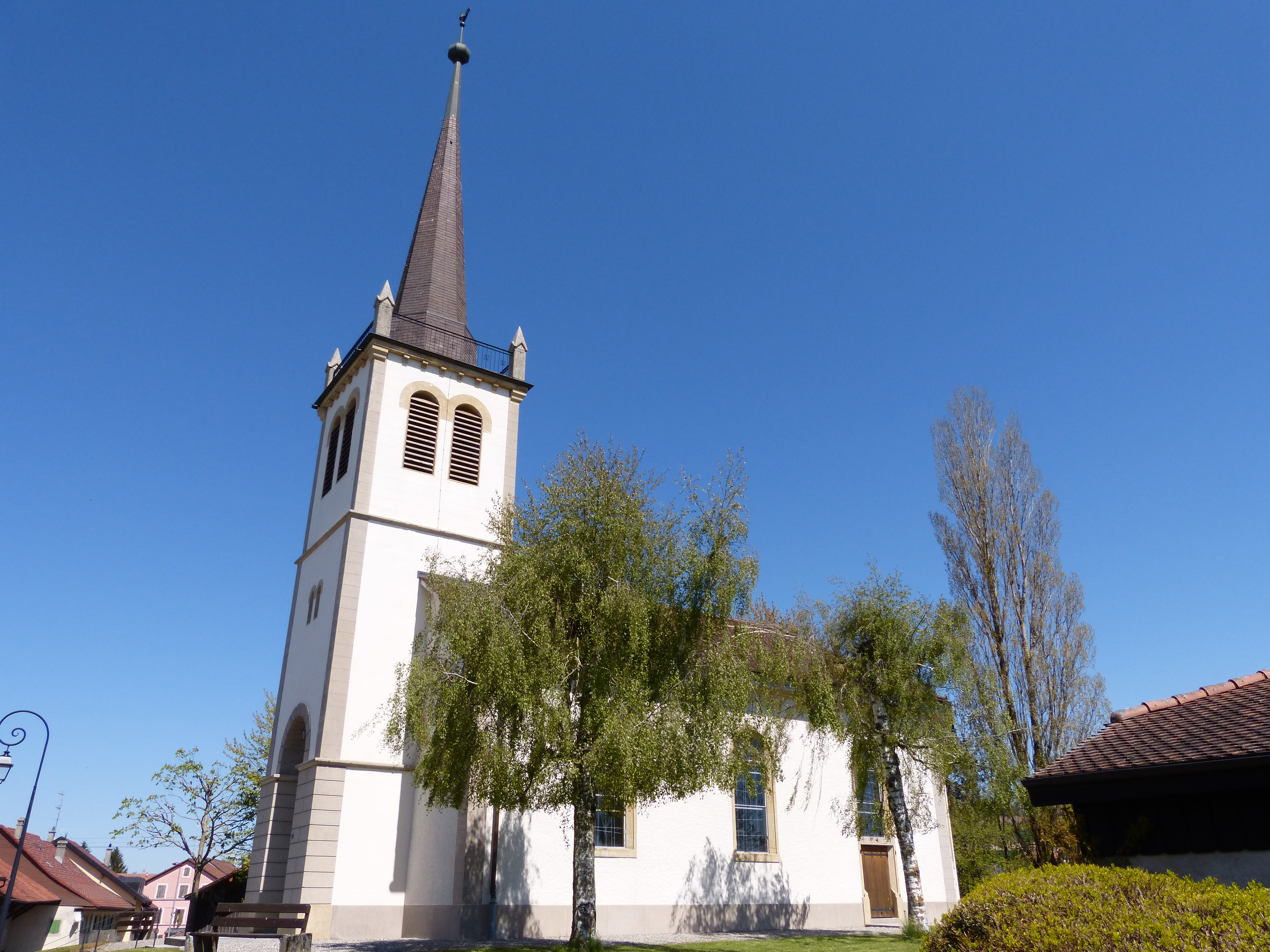 Reformed church of Saint-Cierges.